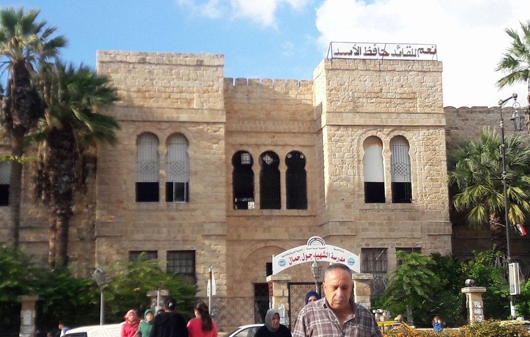 The previous Mandatory-era barracks and current school of Jules Jammal in Latakia, Syria.